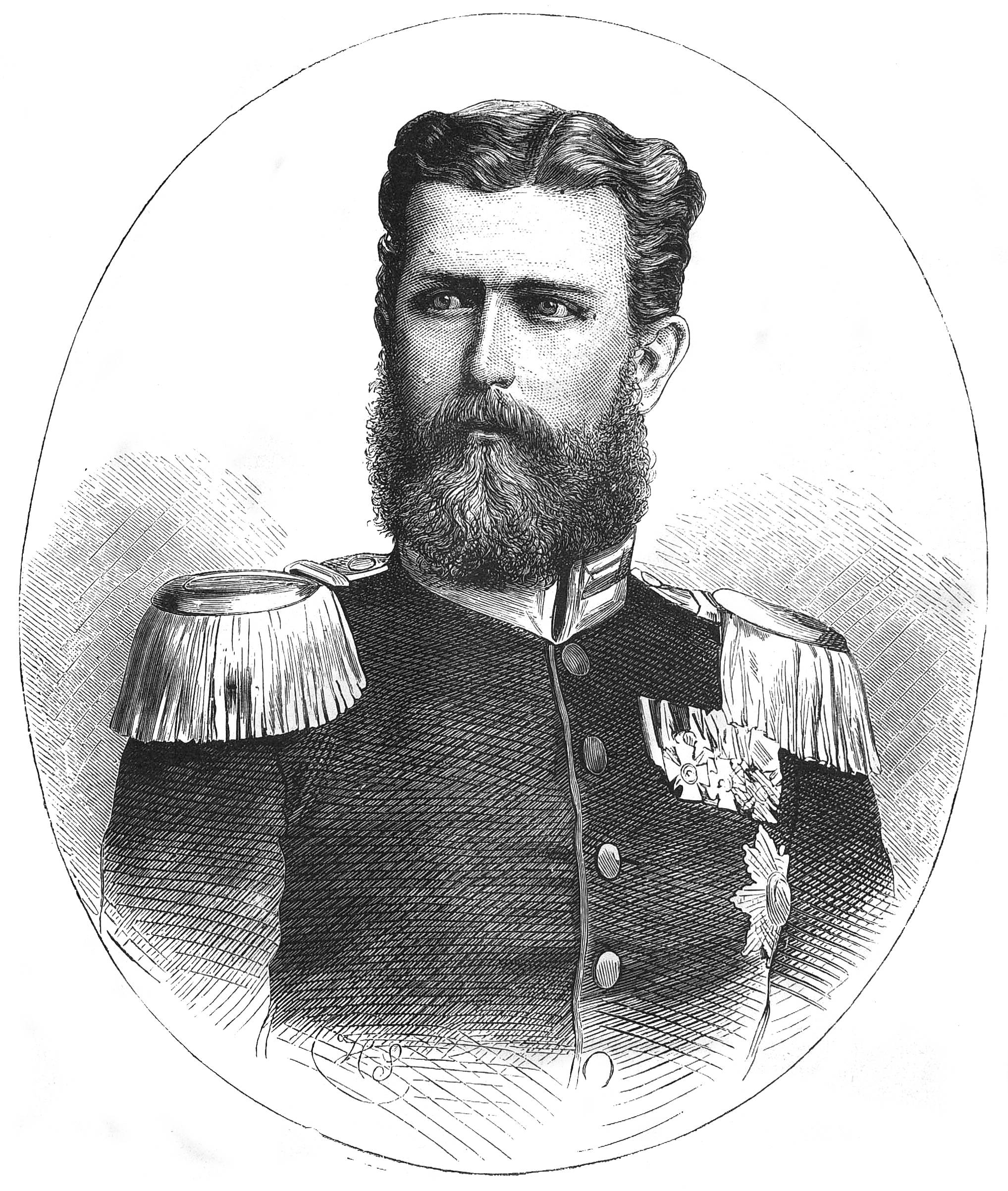 caption: "Leopold von Hohenzollern-Sigmaringen."